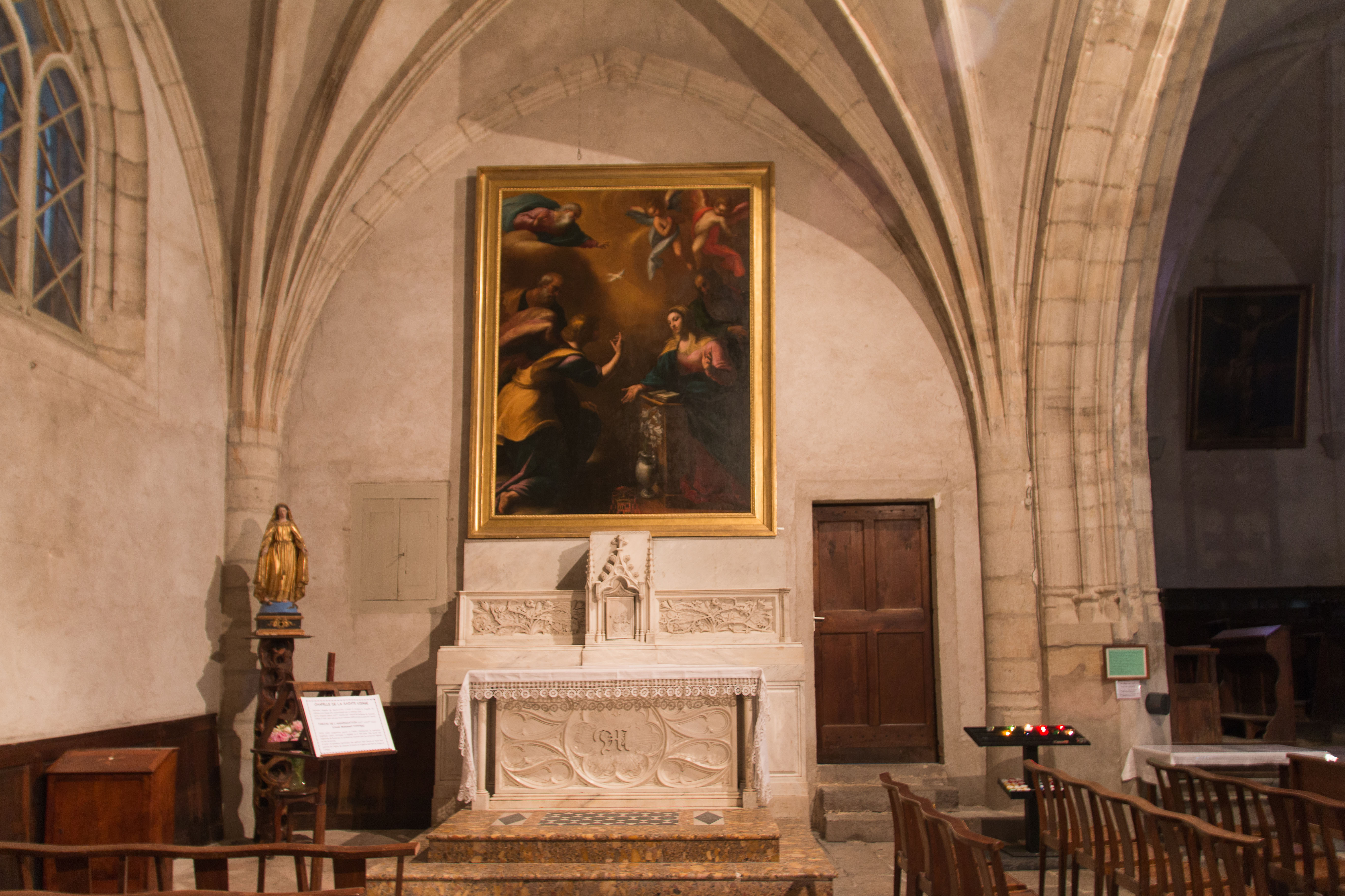 Altar of the chapel of the Blessed Virgin, closes the north transept.